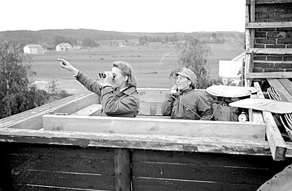 Members of Finnish womens' voluntary defence organization Lotta Svärd in air control duty during the Continuation War